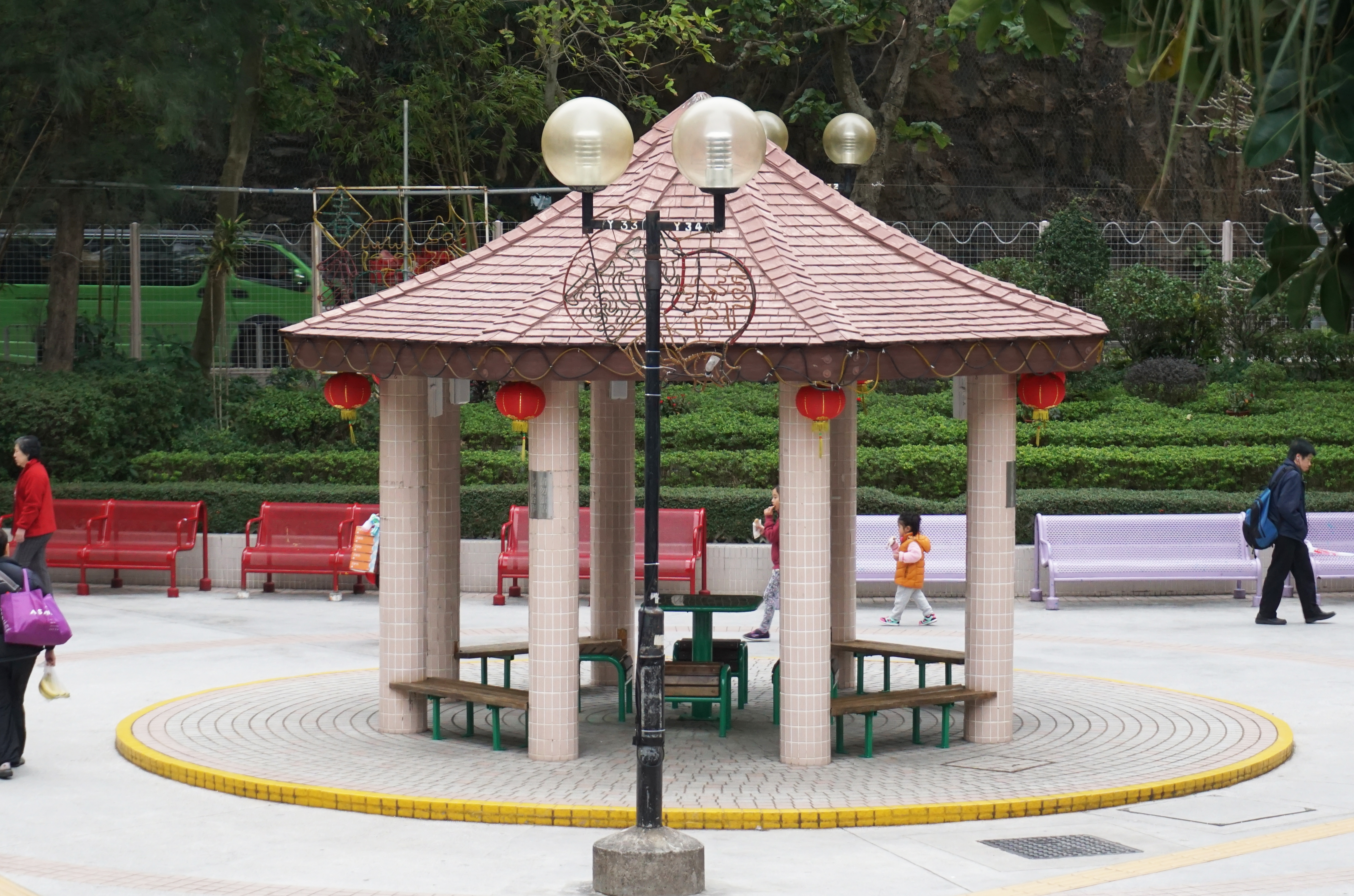 Hing Tin Estate in Lam Tin, Hong Kong.